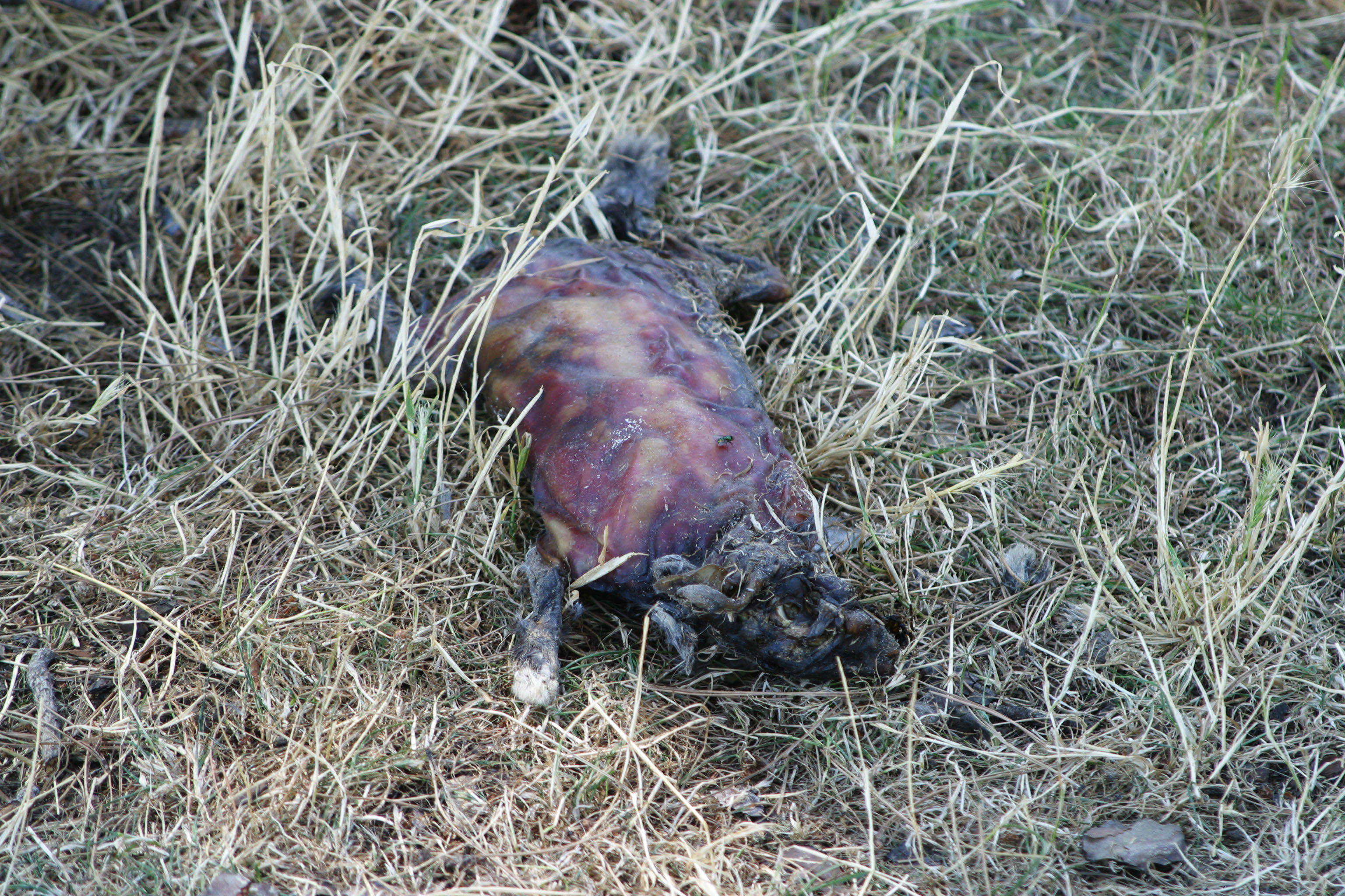 Dead animal. Probably a rabbit, cat or small dog.